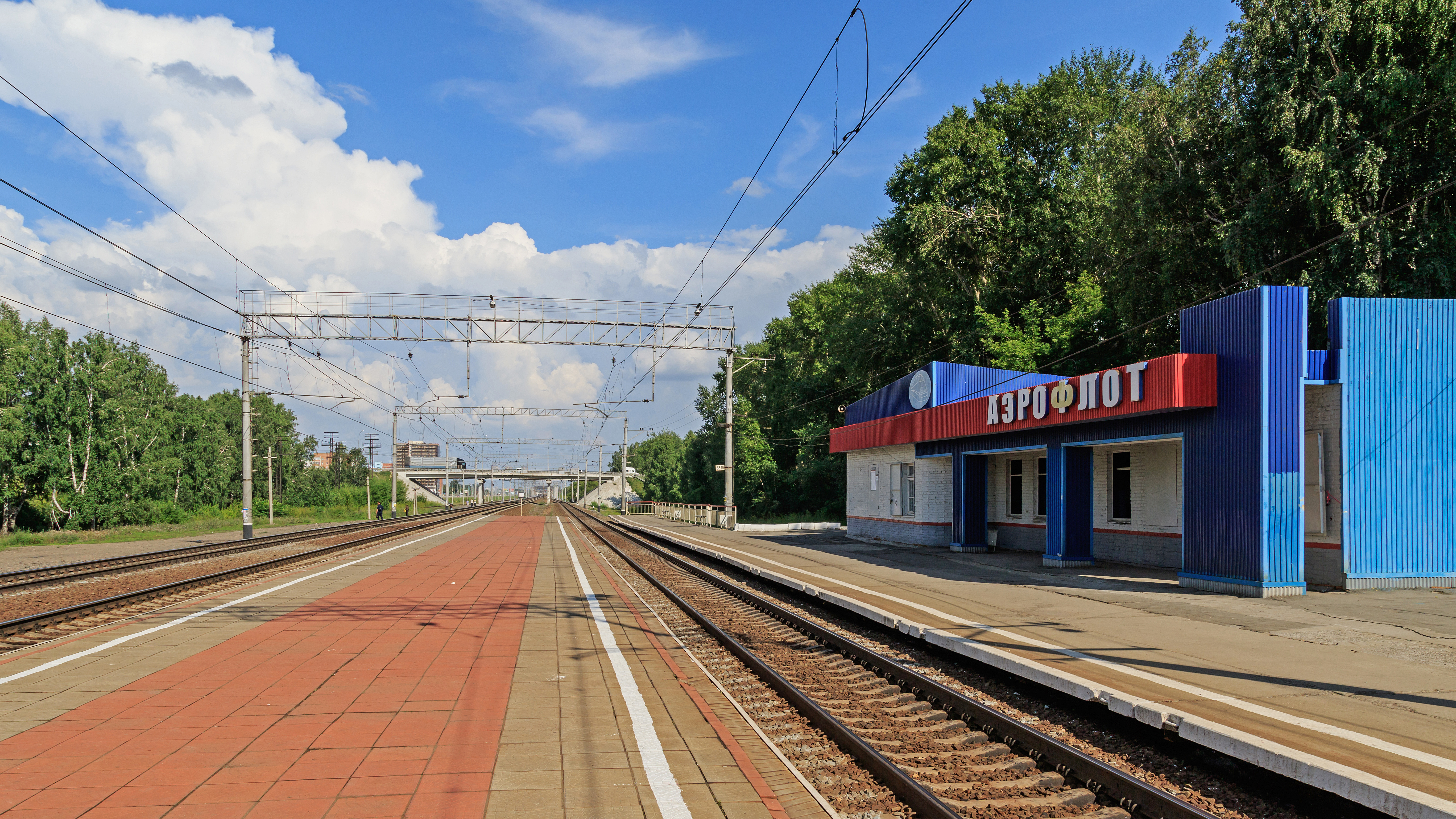 Aeroflot railway halt in Ob (near Novosibirsk), Russia